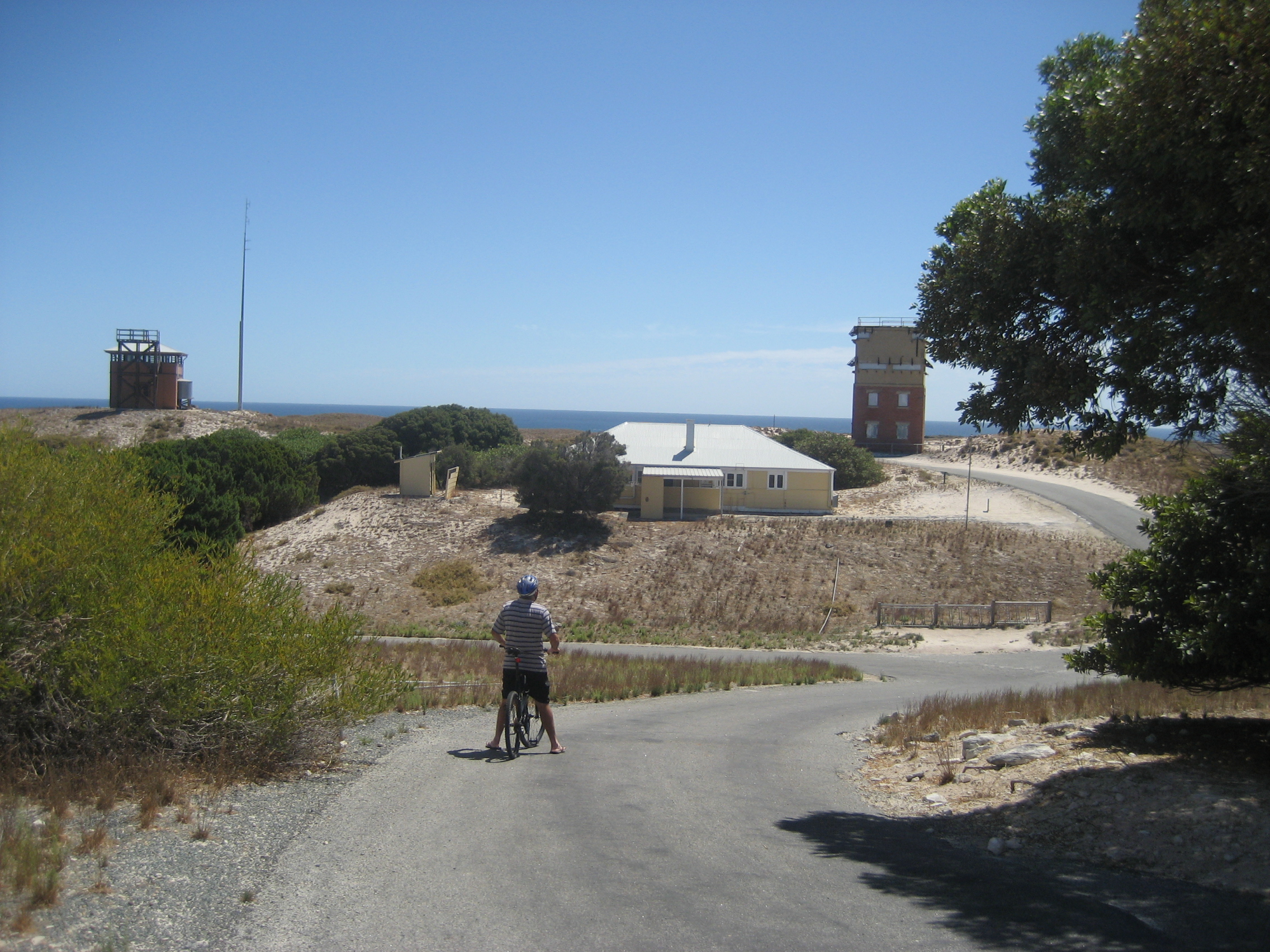 Rottnest Island, Western Australia